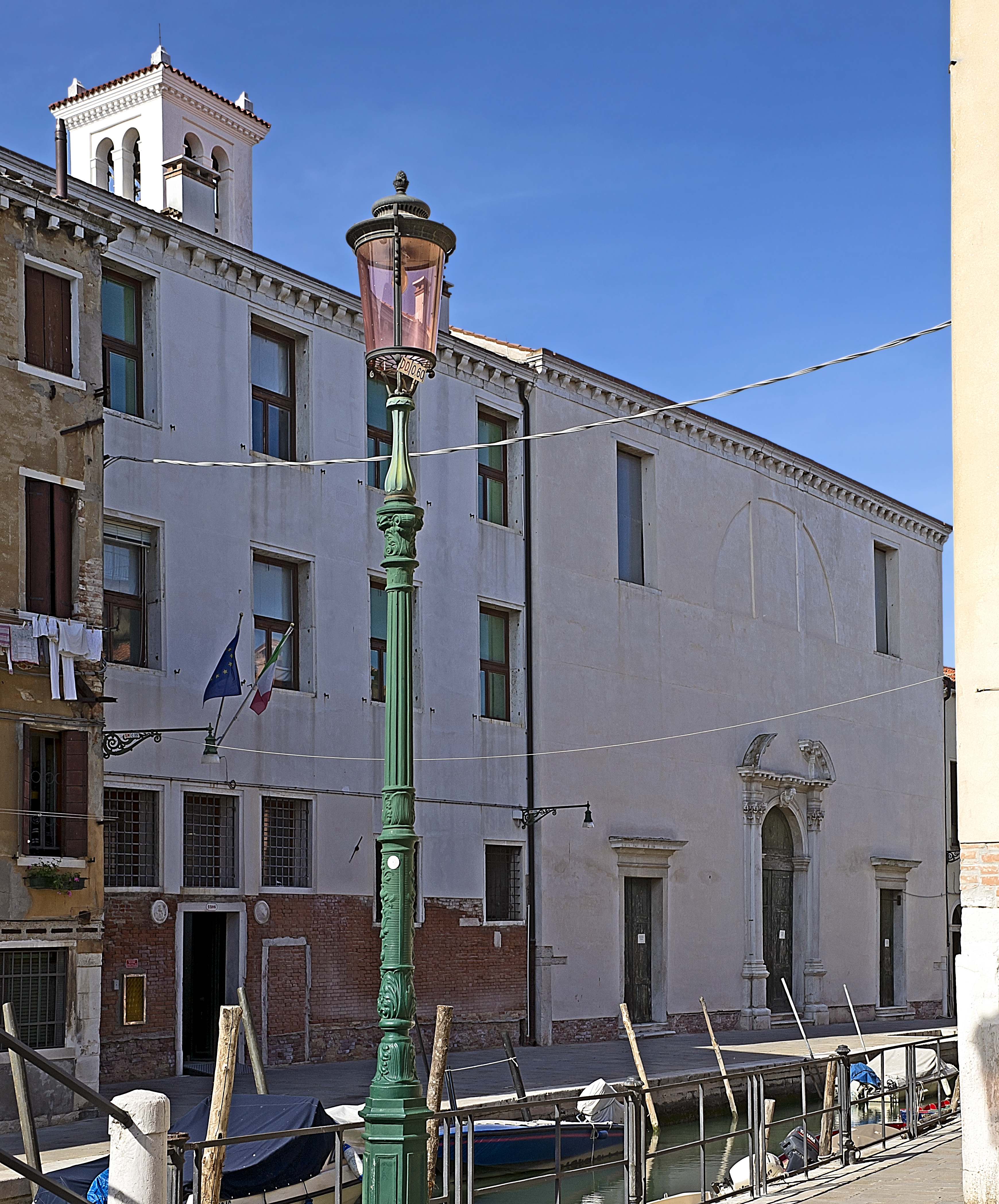 Church of di Santa Teresa in Venice.